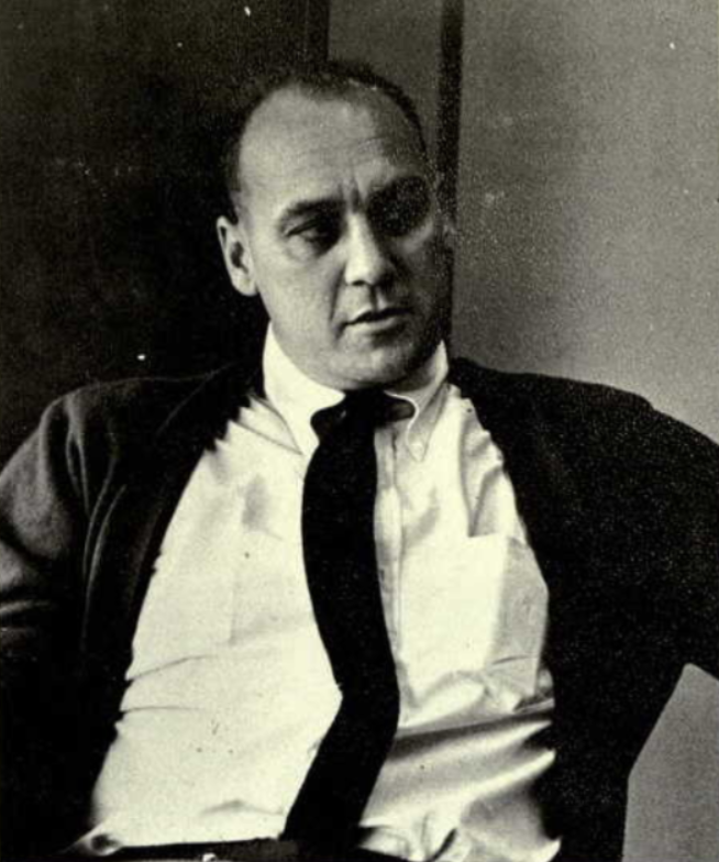 Photograph of Billy Kinard